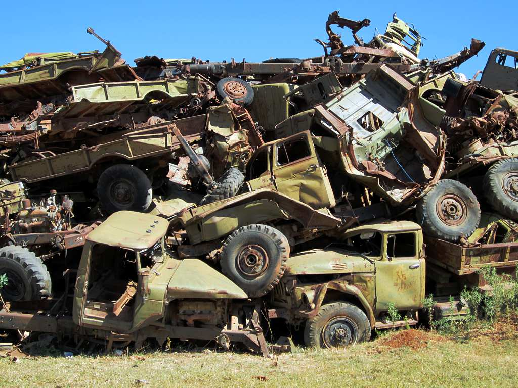 Destroyed Soviet military equipment is piled high in the "tank cemetery" in Asmara, With the 1991 collapse of the Mengistu-led Derg regime in Ethiopia, Eritrea became independent.